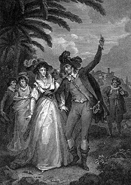 Petruchio forces Katherina to call the sun the moon in The Taming of the Shrew